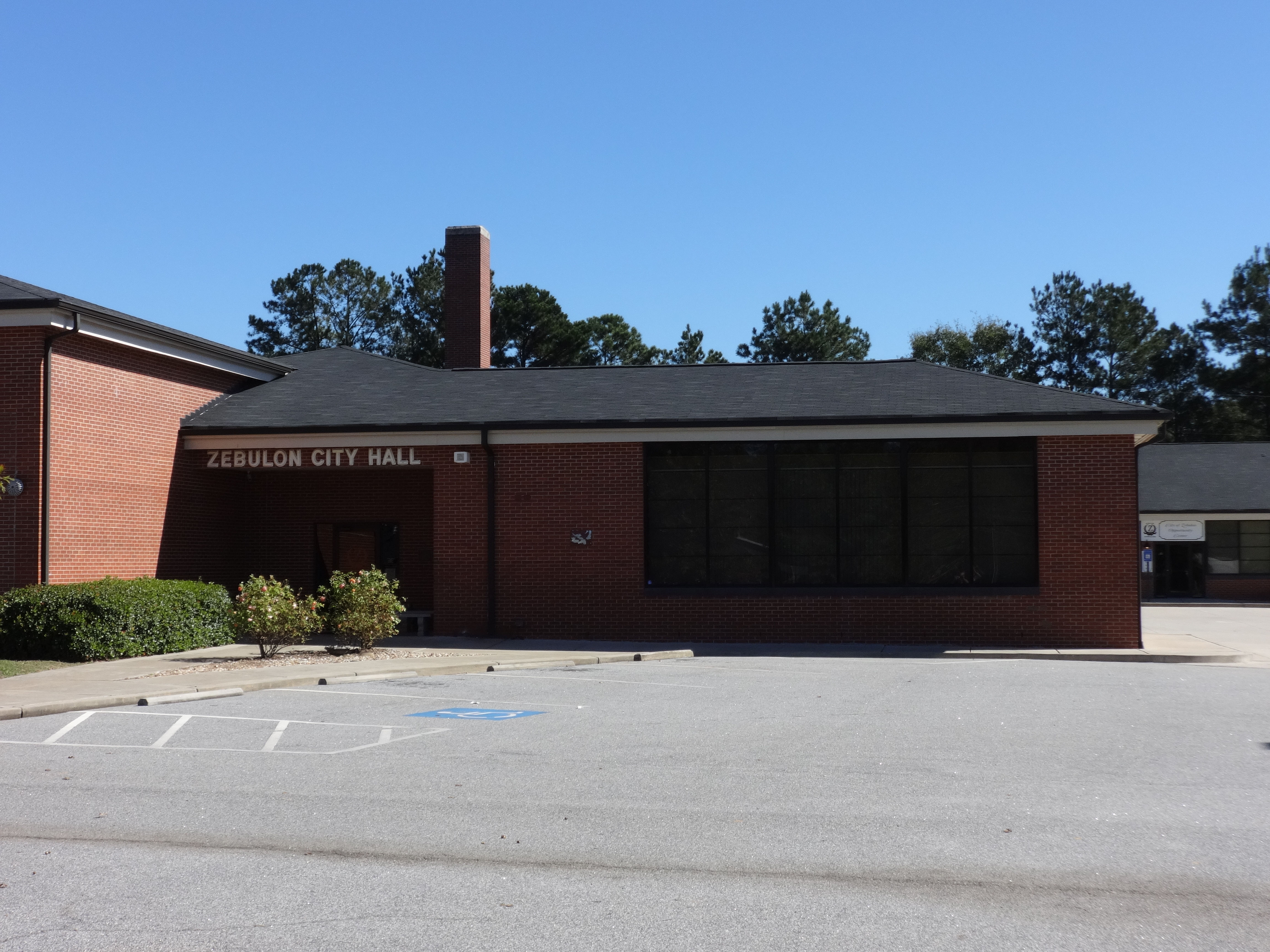 Zebulon City Hall, Zebulon, Pike County, Georgia